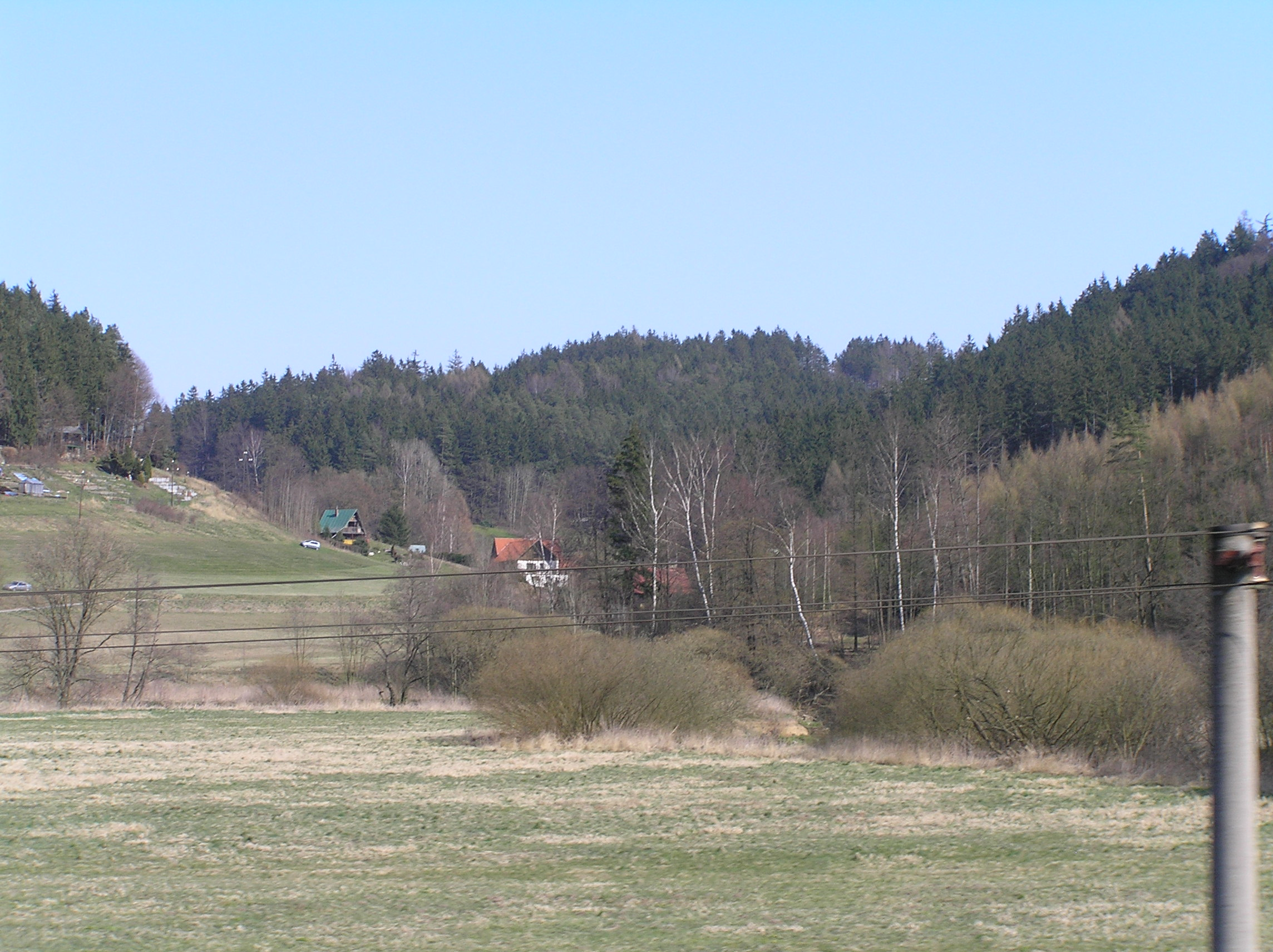 Klopoty, the settlement in Padrubice Region, now it is the part of the village Orlické Podhůří, Czech Republic